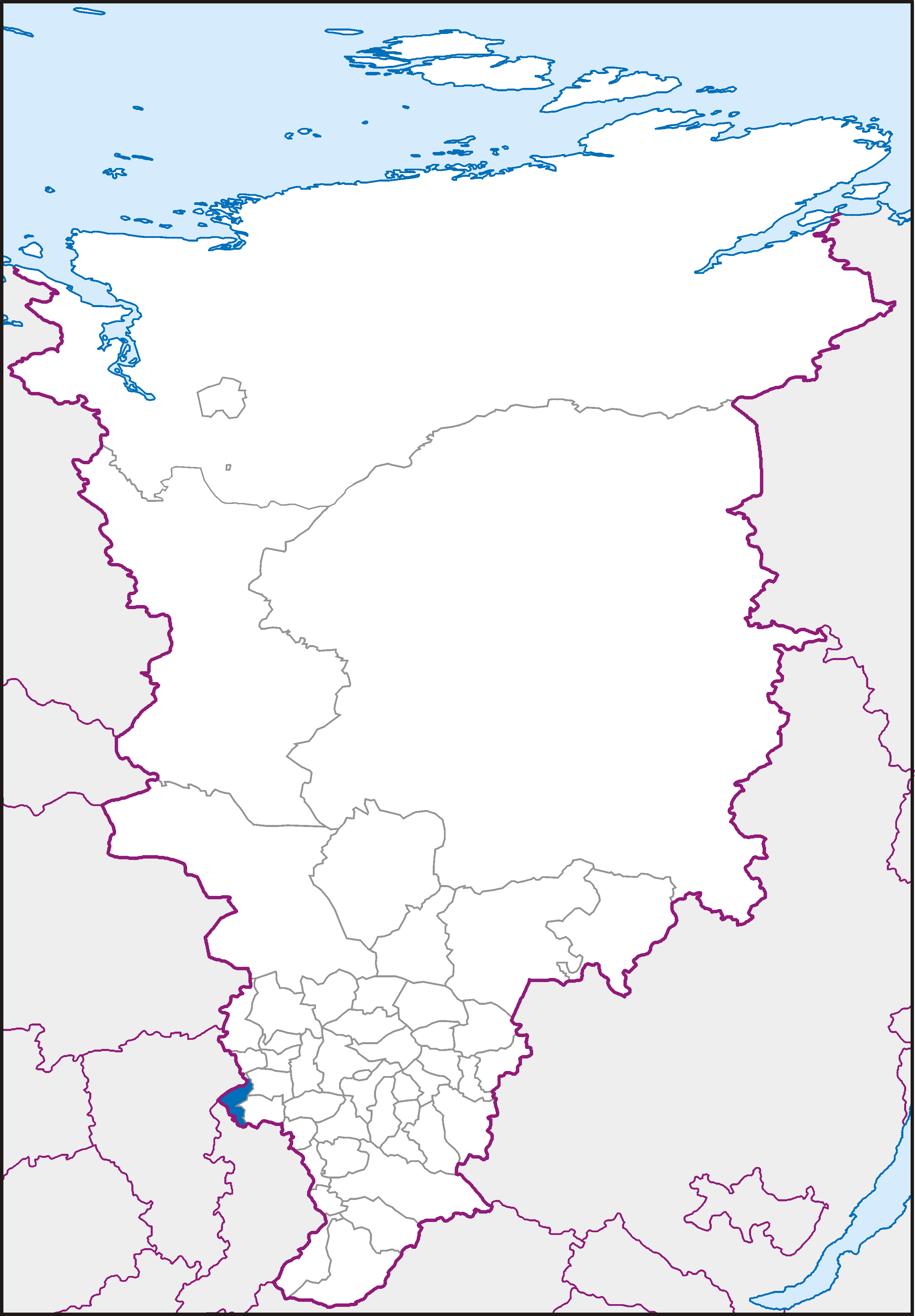 Map of Krasnoyarsk Krai in Albers Equal-Area Conic projection (Central Meridian = 95° E)